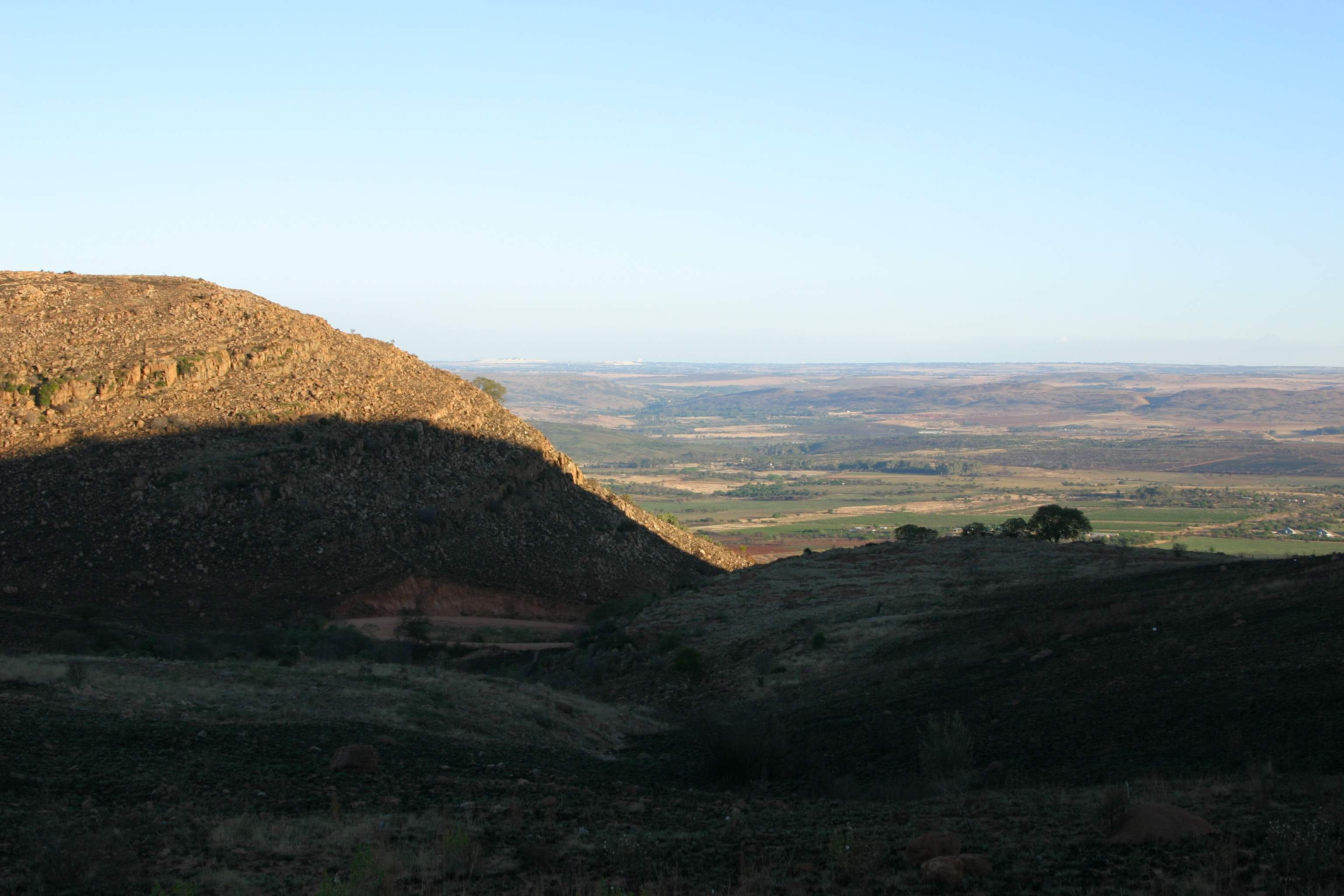 View south from Breedtsnek over Magaliesberg, Transvaal